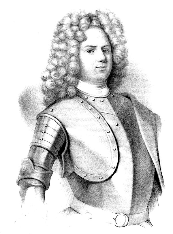 Carl Magnus Stuart (1650-1705)